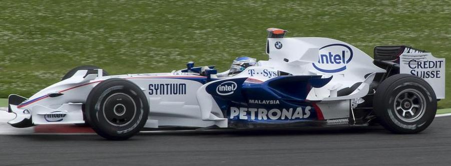 Nick Heidfeld driving for BMW Sauber at the 2008 French Grand Prix.